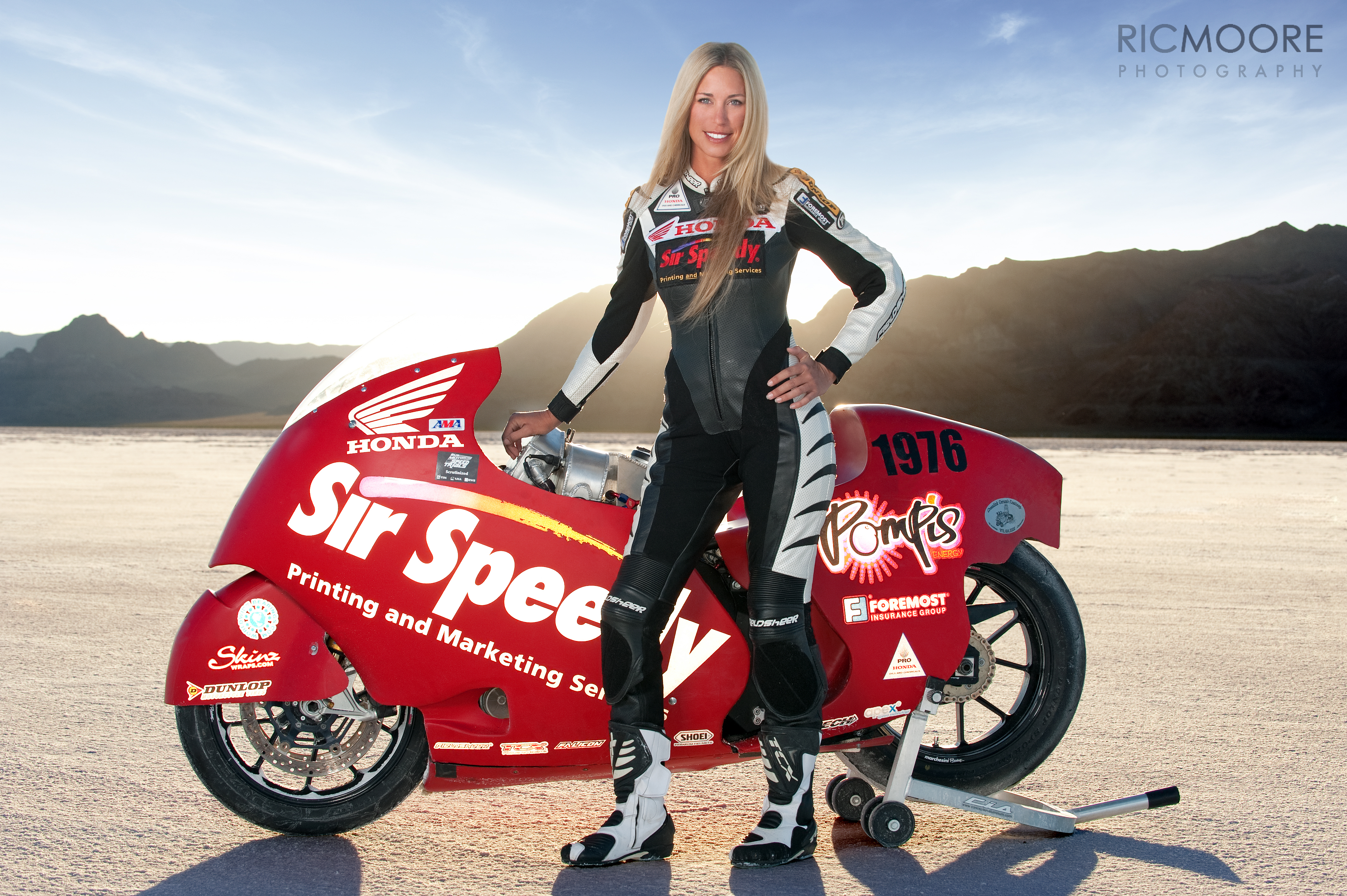 Leslie Porterfield on the Bonneville Salt Flats, Utah, USA